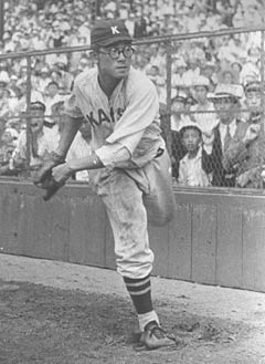 Japanese baseball player,Seiichi Shima (1920 - 1945)